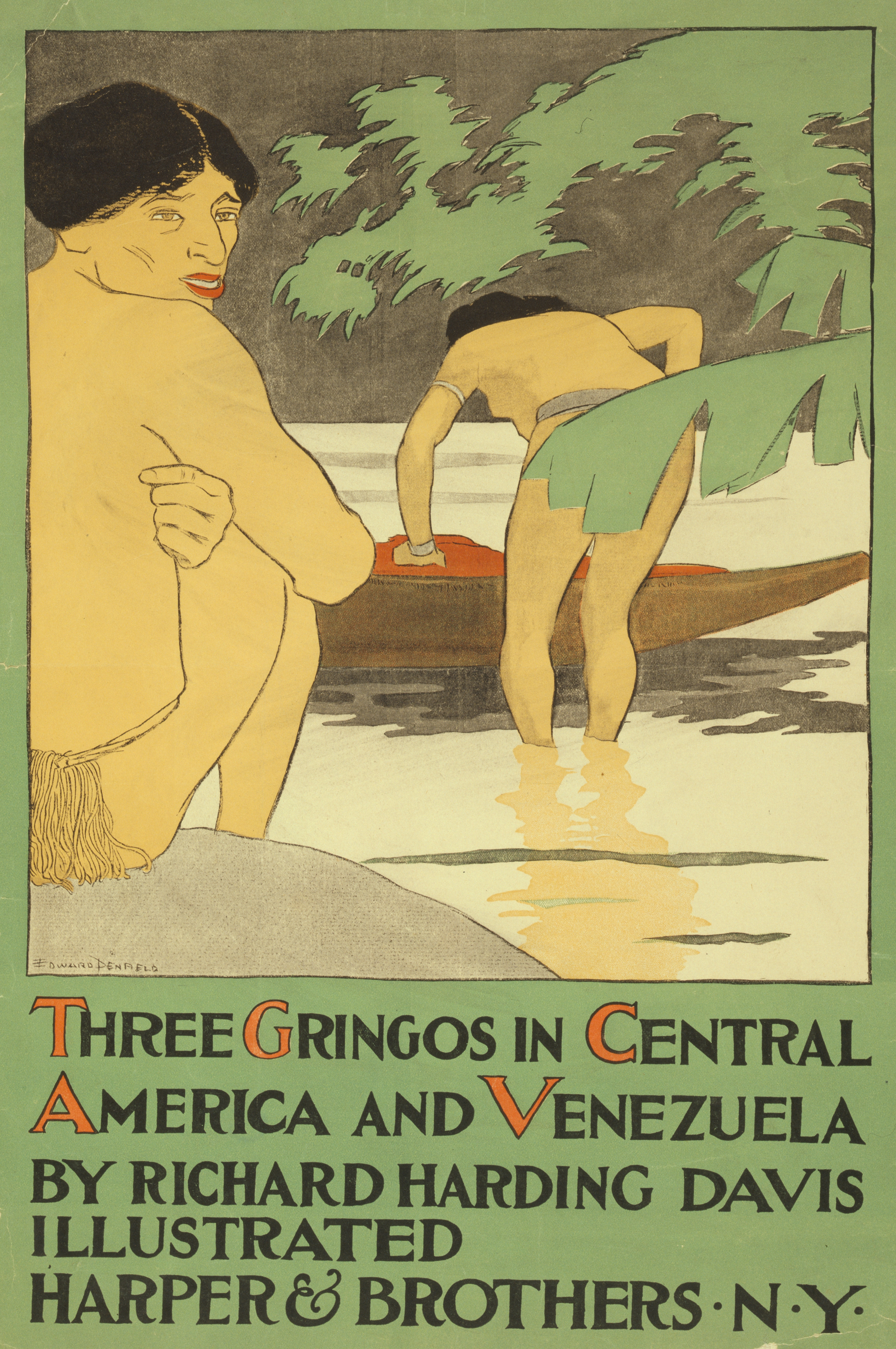 "Three gringos in Central America and Venezuela" by American journalist and novelist Richard Harding Davis (1864-1916). Published by Harper & Brothers, New York. Color lithograph poster by Edward Penfield (1866-1925).